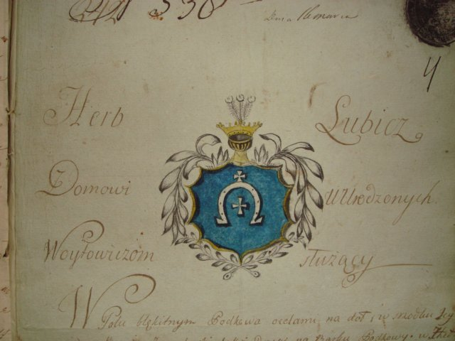 Lubicz noble coat of arms appears on a nineteenth-century document